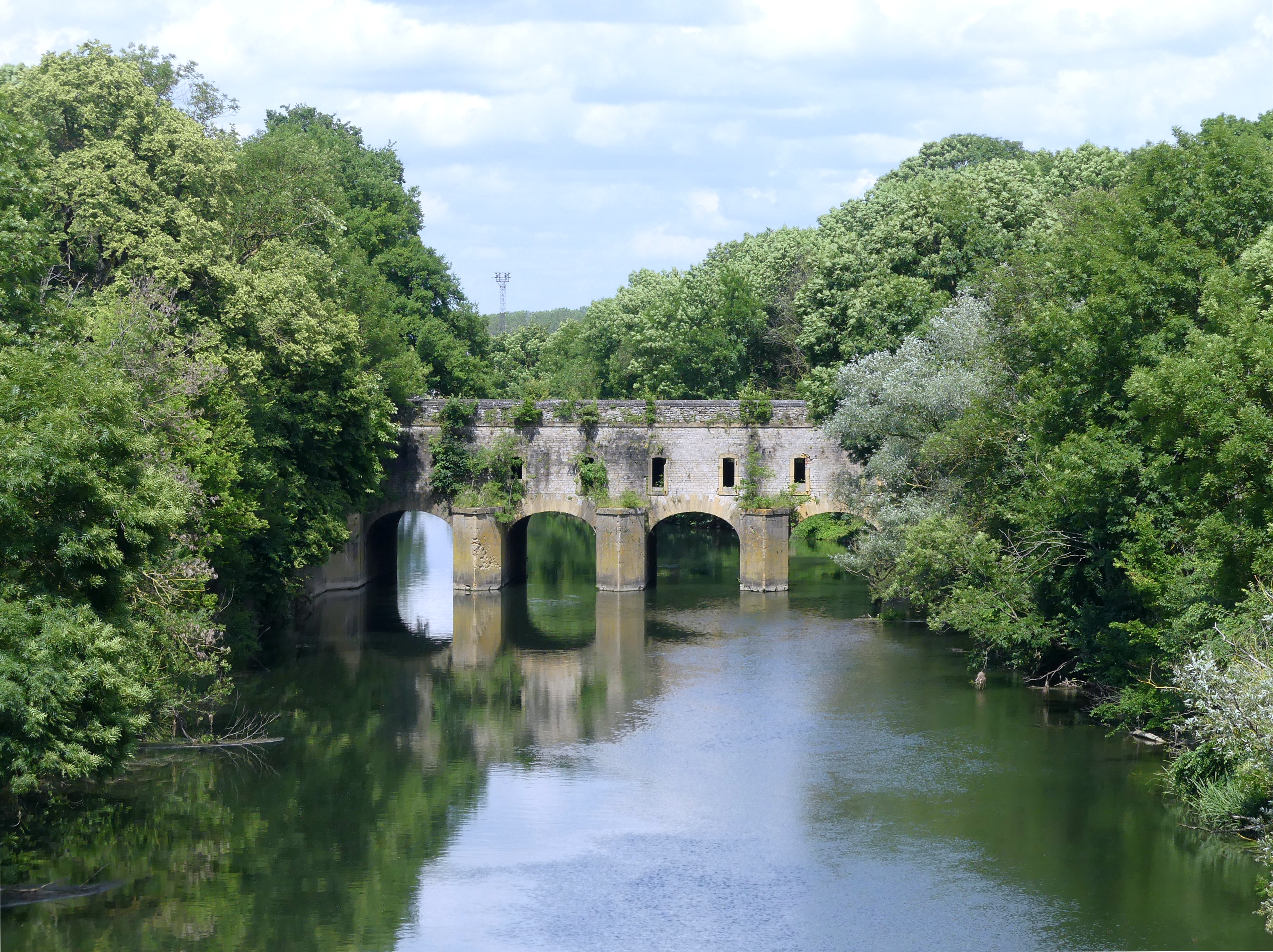 Sight of the pont-écluse Nord du Couronné of Thionville, in Moselle, France.